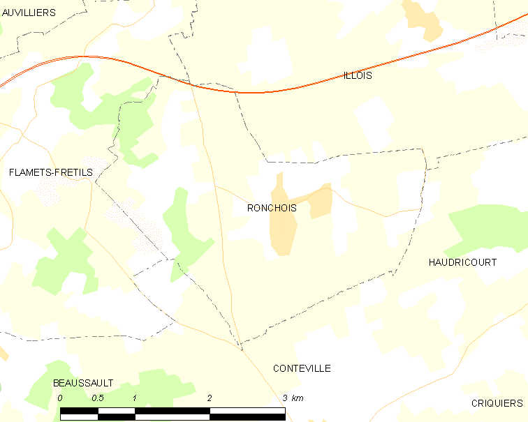 Map of French municipality Ronchois